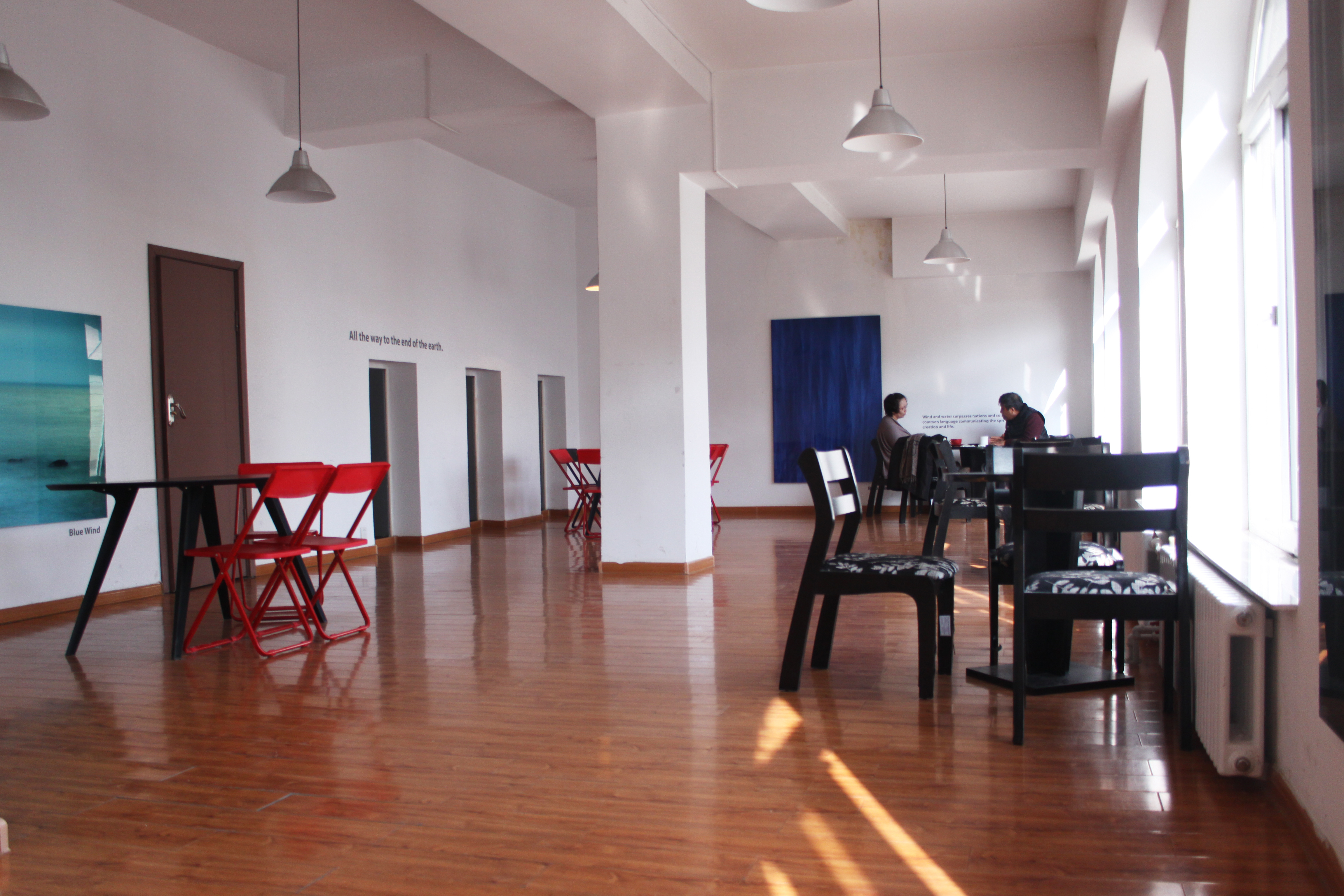 MIU Gilgal Cafe 2nd floor